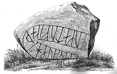 Image by Julius Magnus Petersen in De Danske Runemindesmærker by P. G. Thorsen, 1879